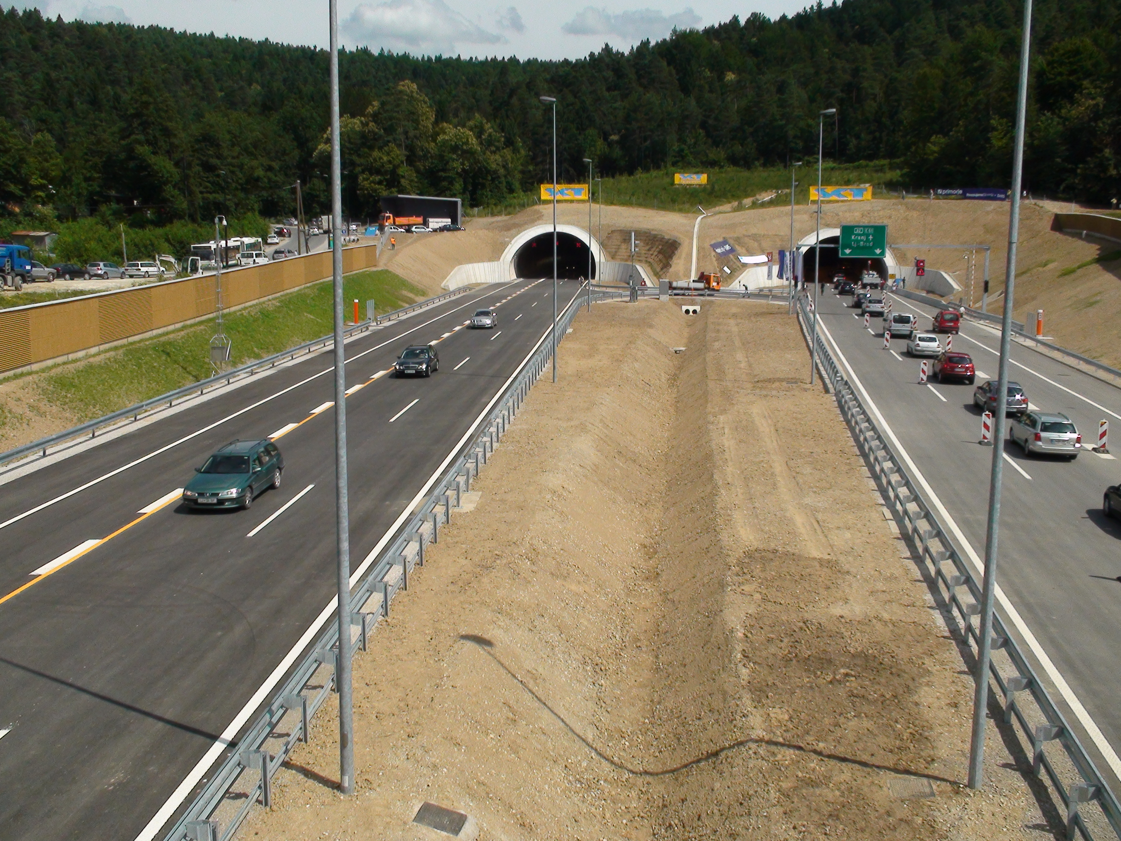 The Šentvid tunnel right after the opening